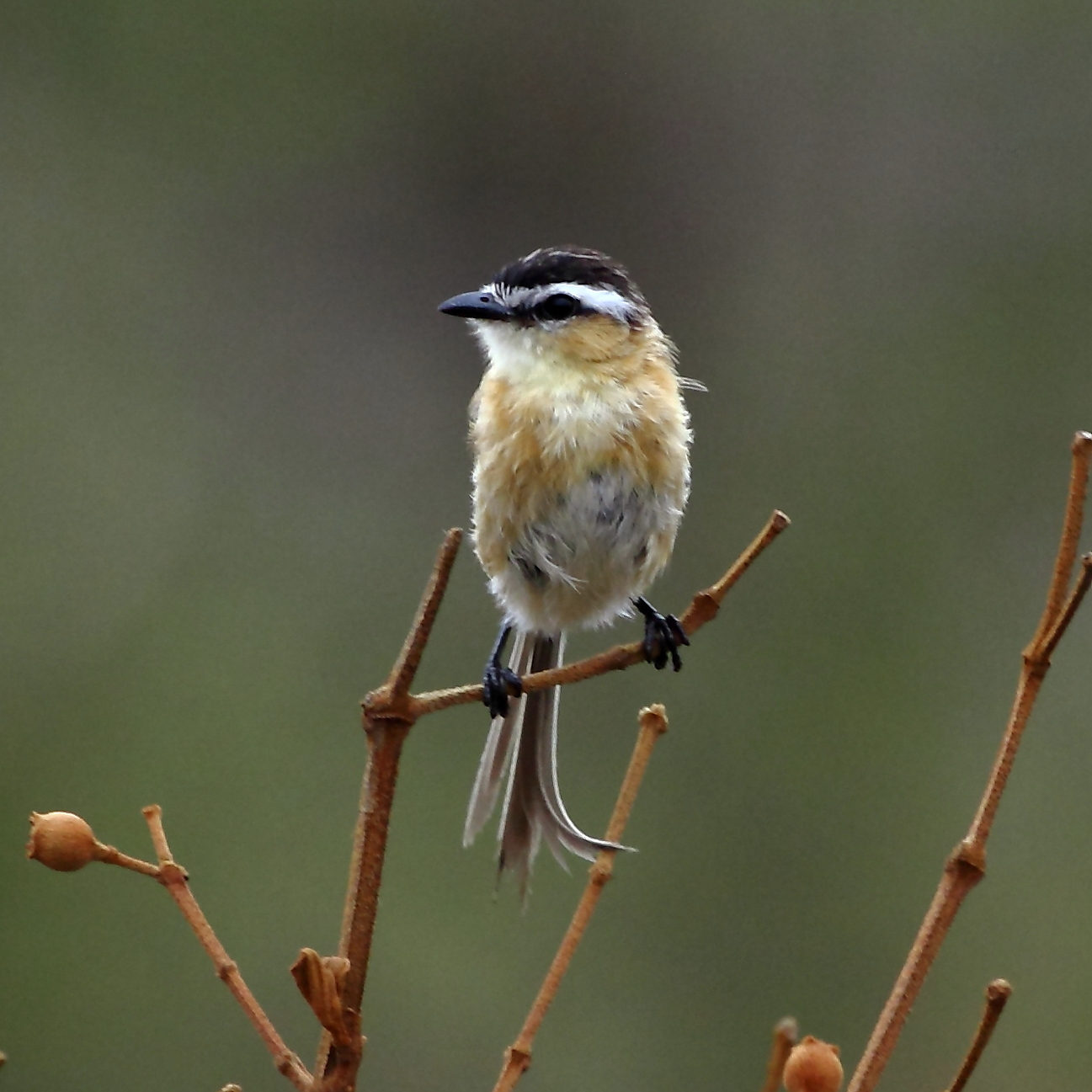 Sharp-tailed tyrant at Serra da Canastra National Park - MG - Brazil